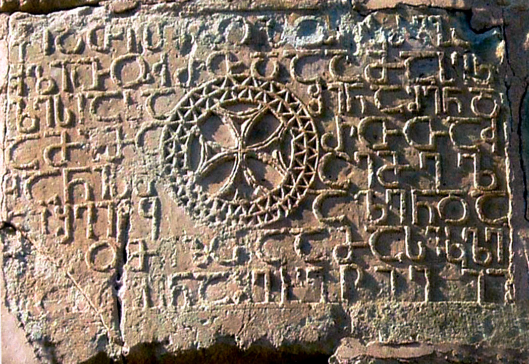 Georgian Asomtavruli inscription with a "Bolnisi-type cross" at the Bolnisi Sioni church, Kvemo Kartli, Georgia